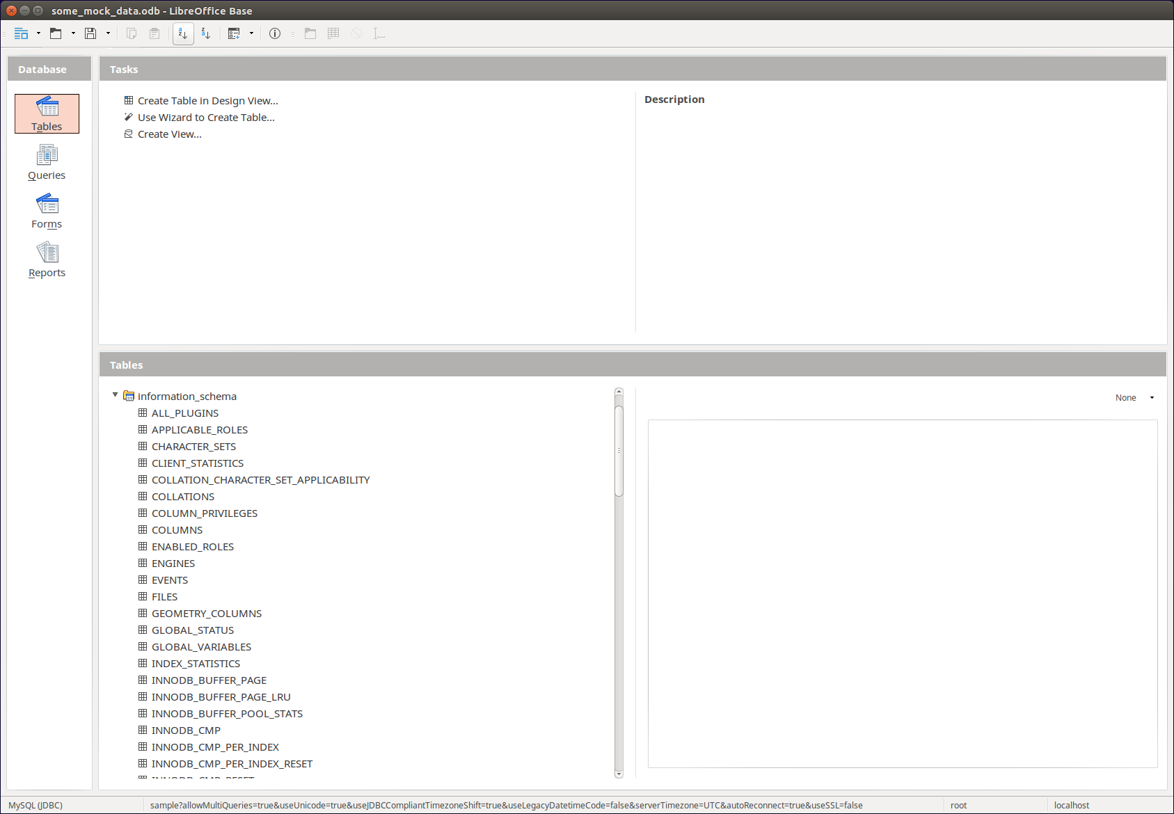 LibreOffice 6.0.6.2 running on Ubuntu 16.04